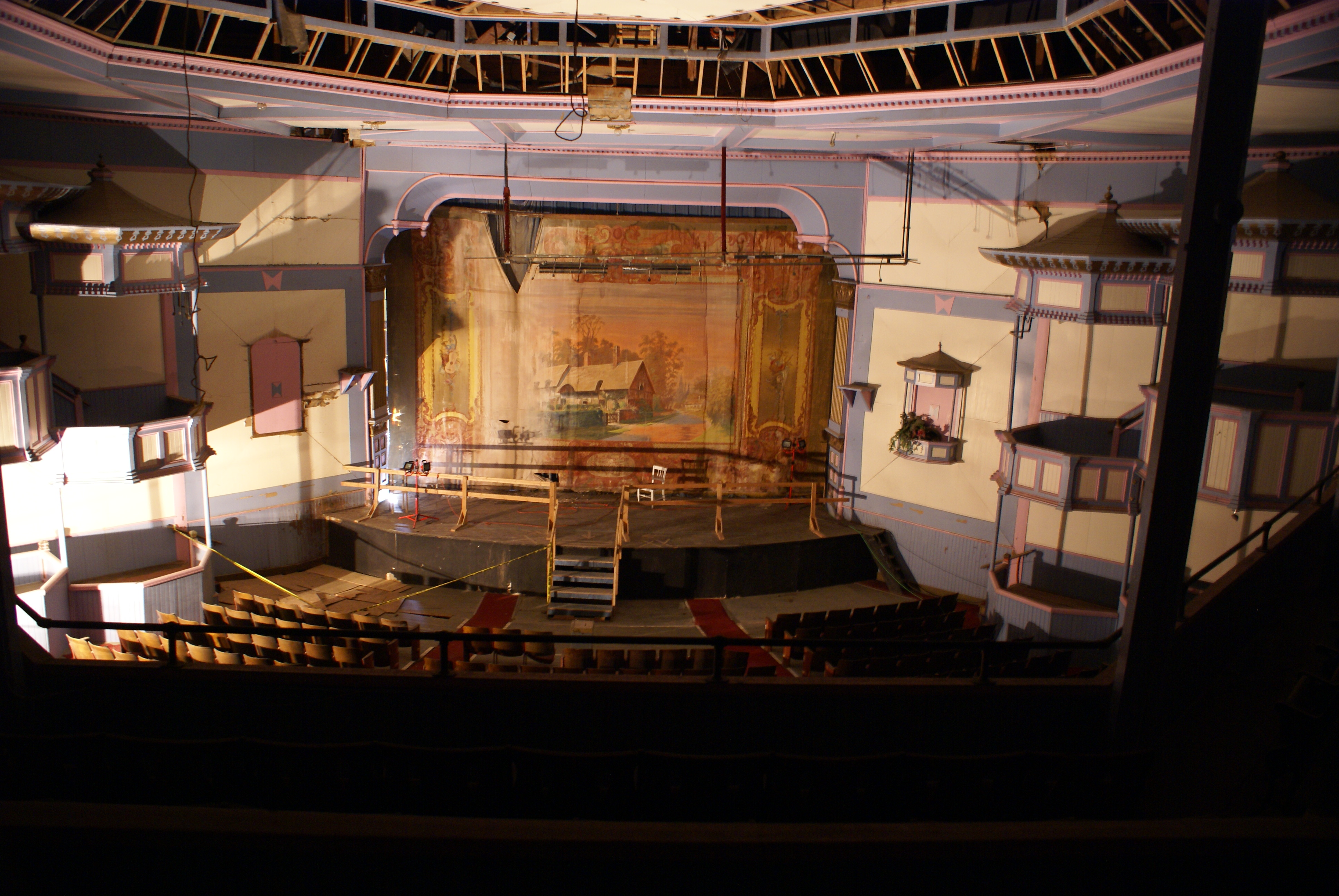 Historic Elitch Gardens Theatre interior with hanging original decorative curtain. Curtain was lowered and is now in protective storage.